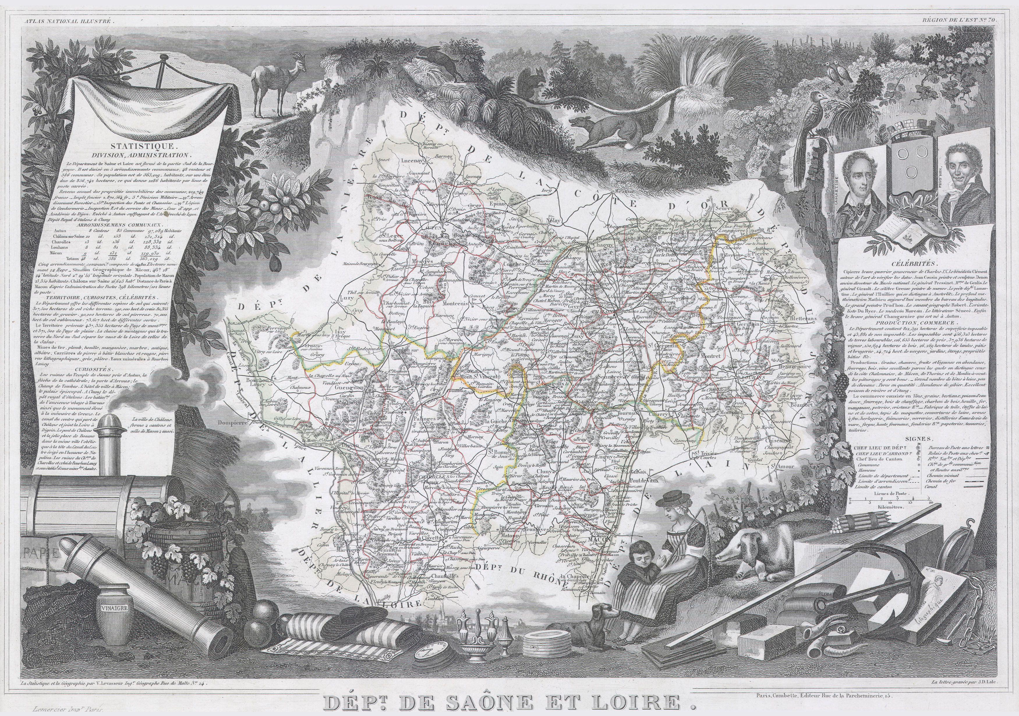 This is a fascinating 1847 map of the French department of Saone et Loire is at the heart of the legendary Beaujolais wine producing region. The whole is surrounded by elaborate decorative engravings designed to illustrate both the natural beauty and trade richness of the land. There is a short textual history of the regions depicted on both the left and right sides of the map.